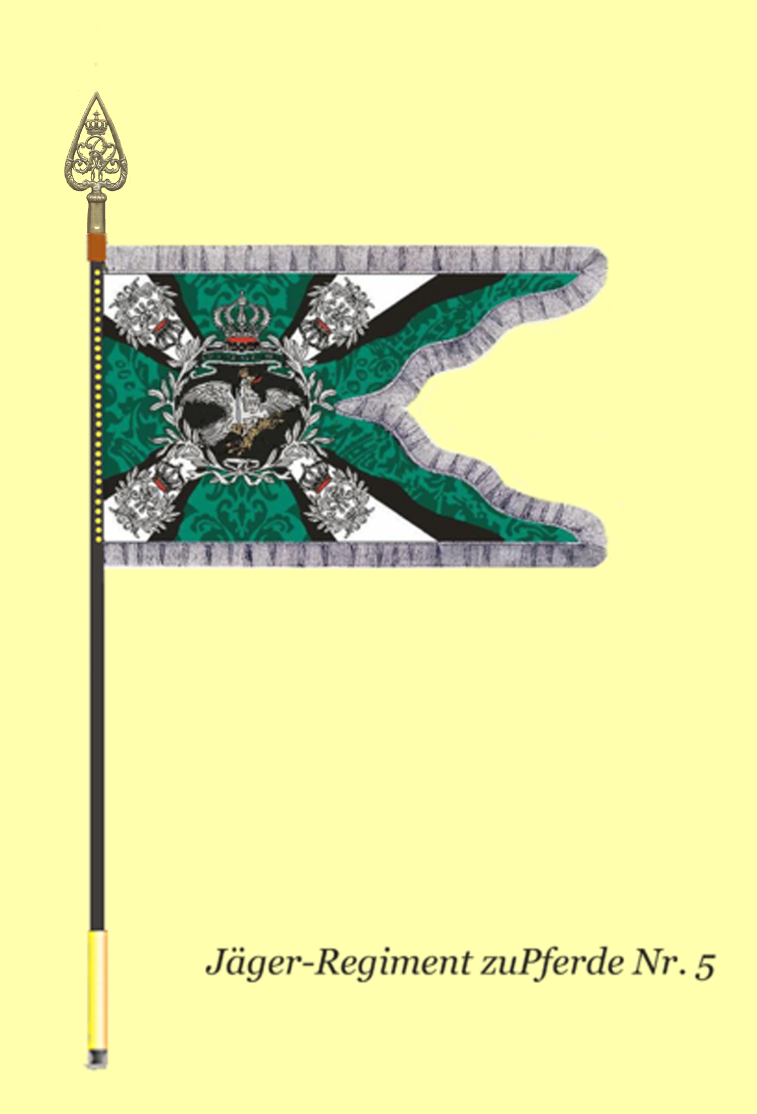 Colors of the royal prussian 5th Regiment of Mounted Rifles